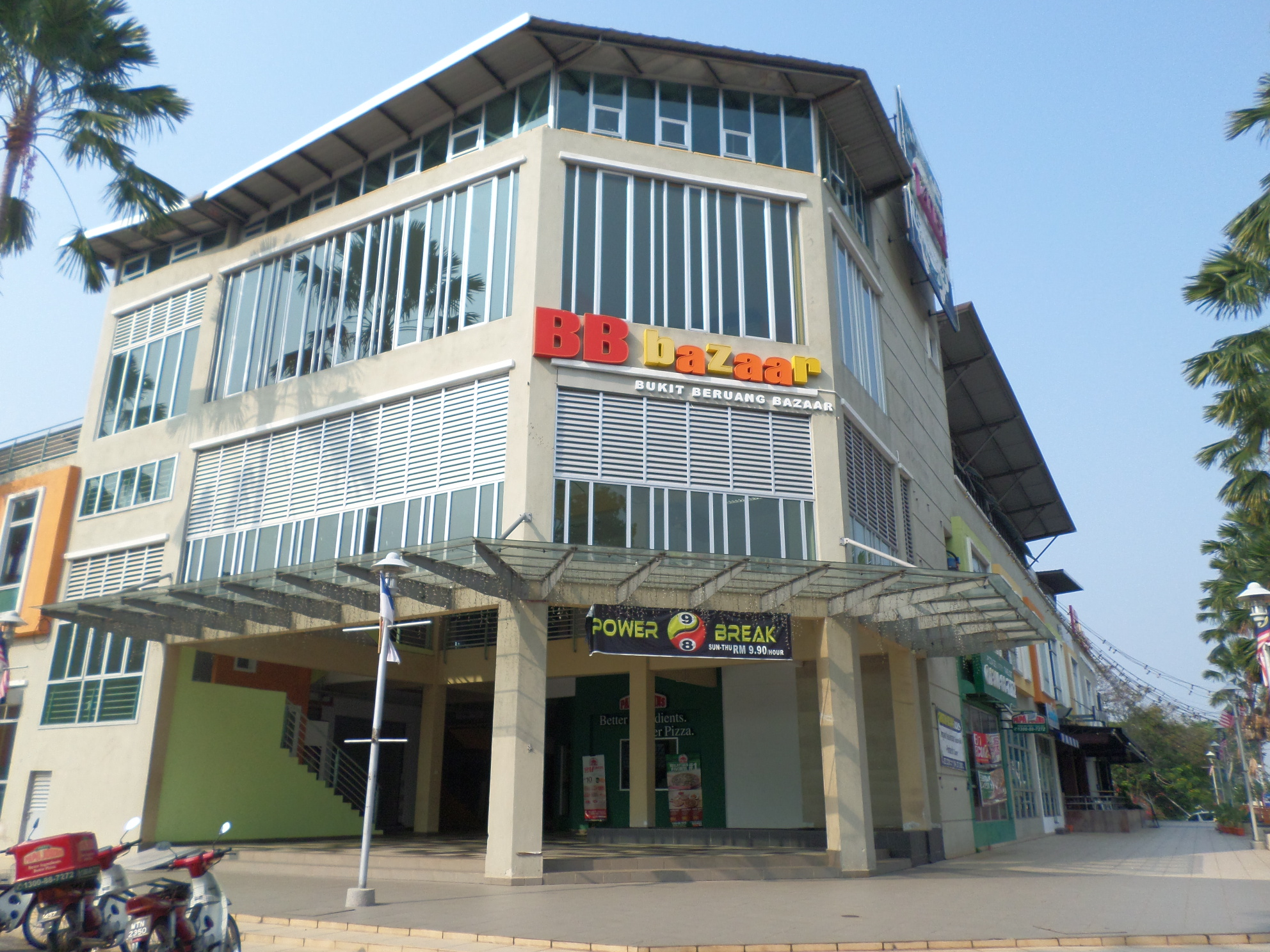 Bukit Beruang Bazaar, Bukit Beruang, Malacca, Malaysia